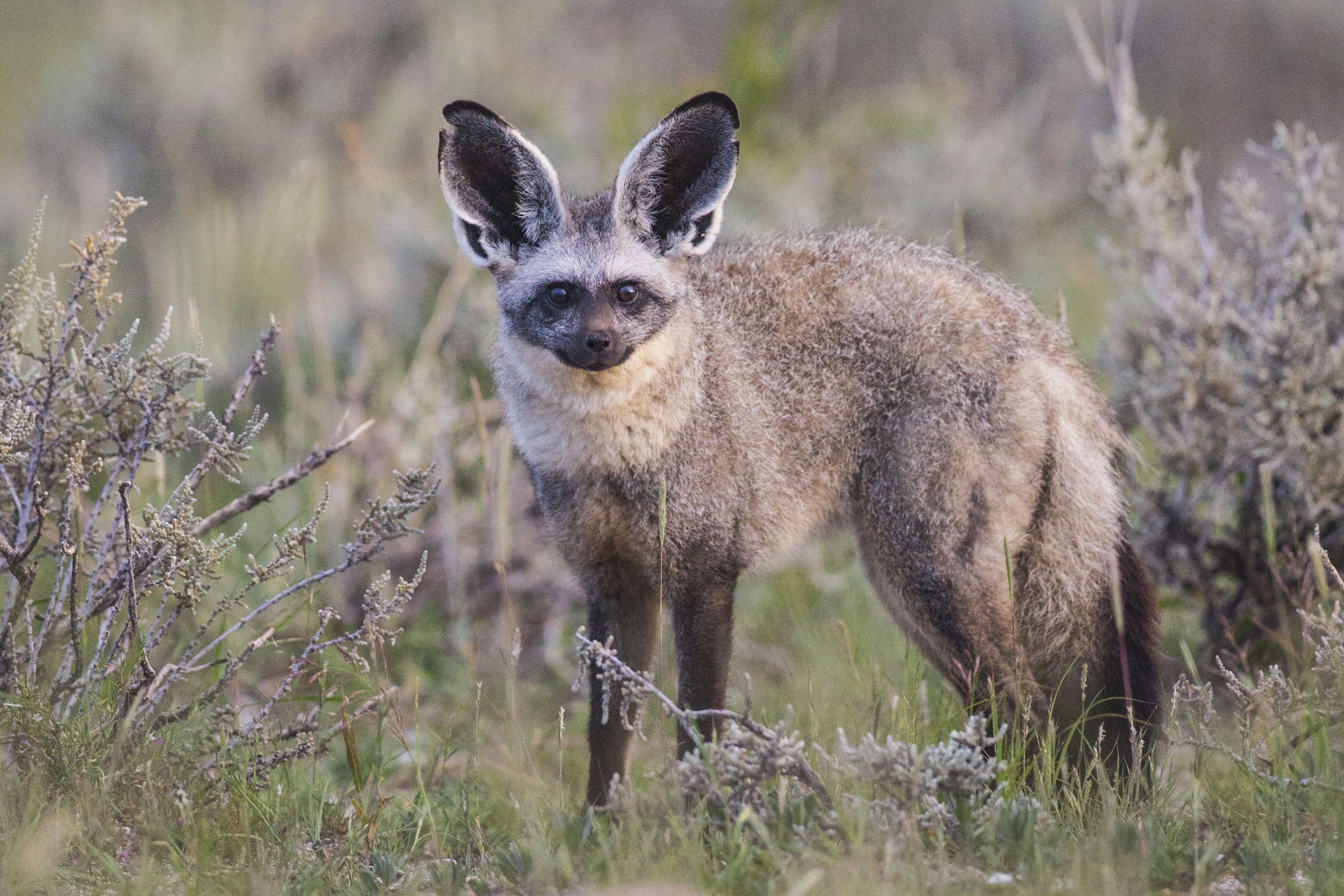 Bat-eared fox in the Etosha National Park